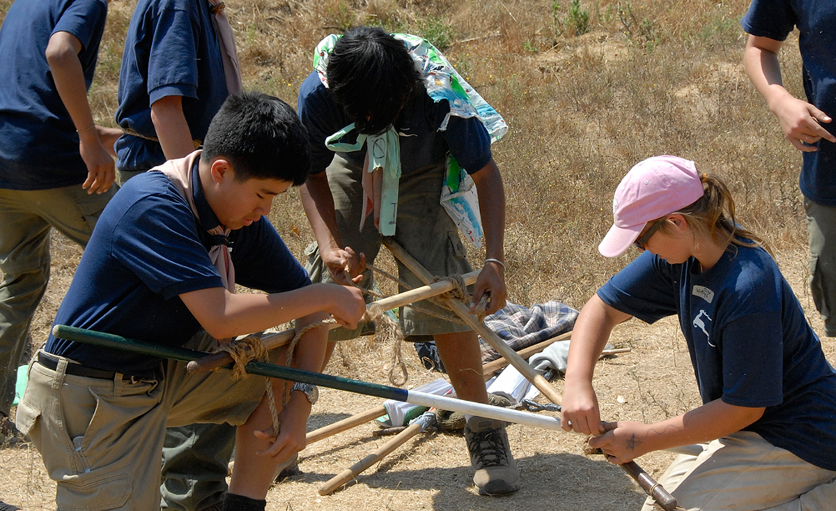 Candidate participants at White Stag Leadership Development Summer Camp tie lashings to turn 3 poles into a triangular "chariot." The goal is to finish the lashings and carry a patrol member across a goal line before any other team. Marin County, California.